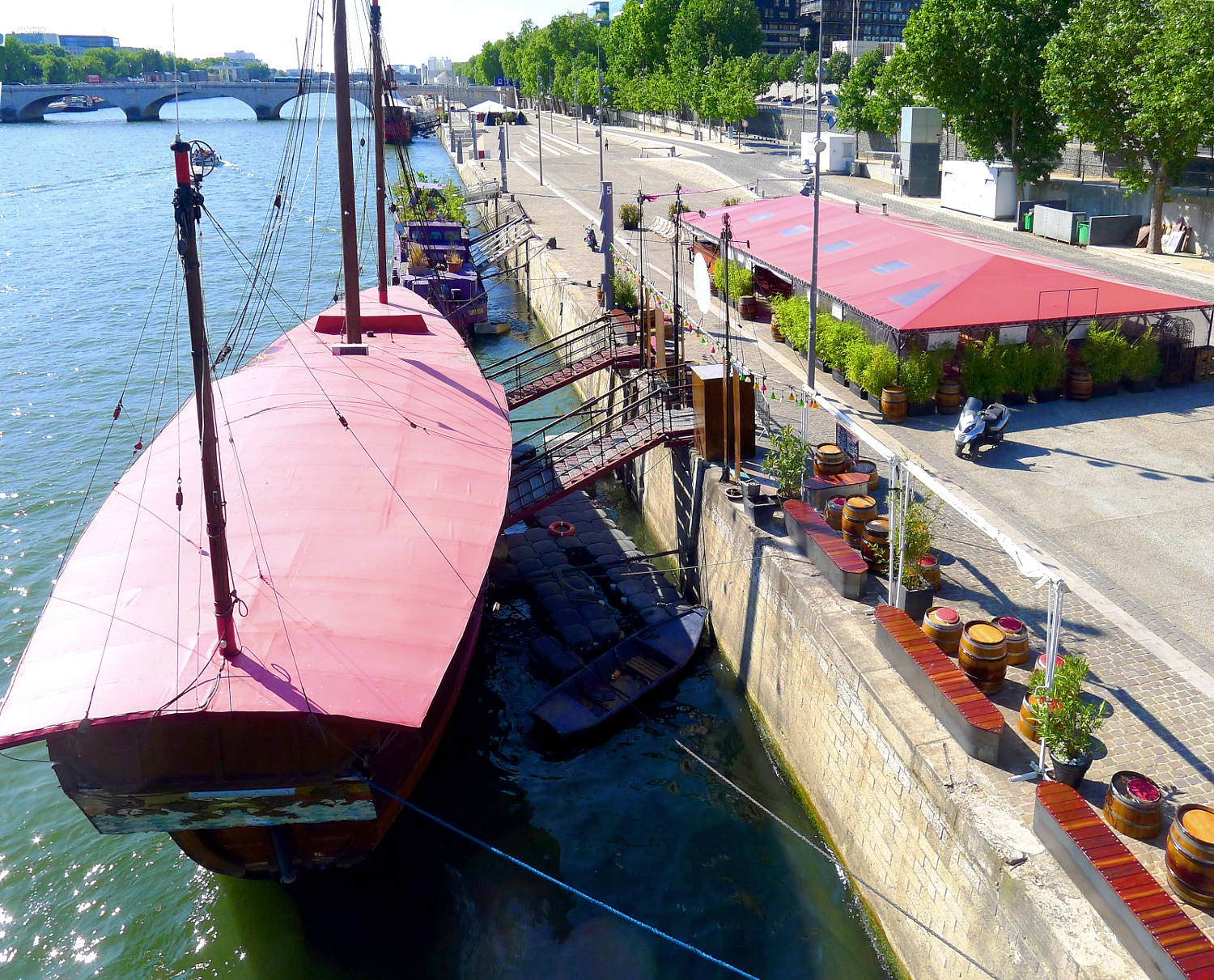 Port de la Gare - Paris